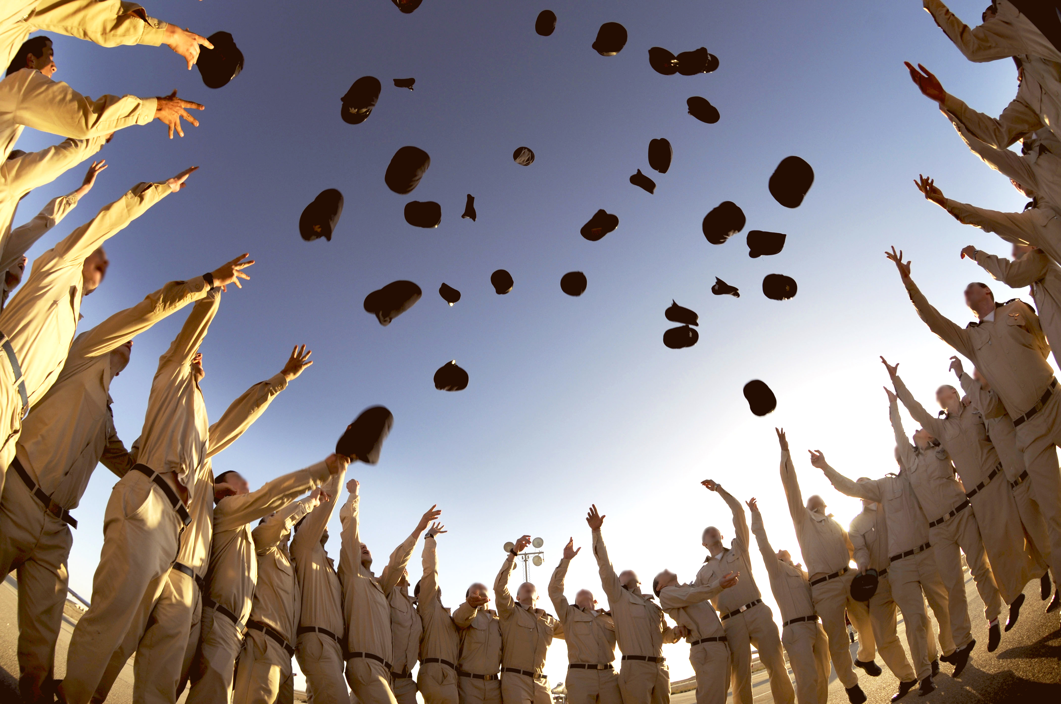 December 27, 2012 The 165th course of graduates of the Israel Air Force Flight Academy. Among the graduates are fighter pilots, helicopter pilots, cargo pilots, and navigators. Photo: Staff Sgt. Ori Shifrin, IDF Spokesperson's Unit The Israel Defense Forces Facebook • blog • Twitter